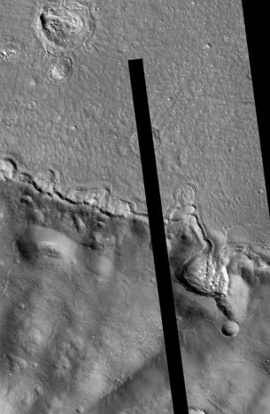 Galaxius Mons, as seen by hirise. Location is 34.7 north and 142.3 east. Image was taken by the Mars Reconnaissance Orbiter's HiRISE. HiRISE camera was built by Ball Aerospace and Technology Corporation and is operated by the University of Arizona. Image courtesy NASA/JPL/University of Arizona.